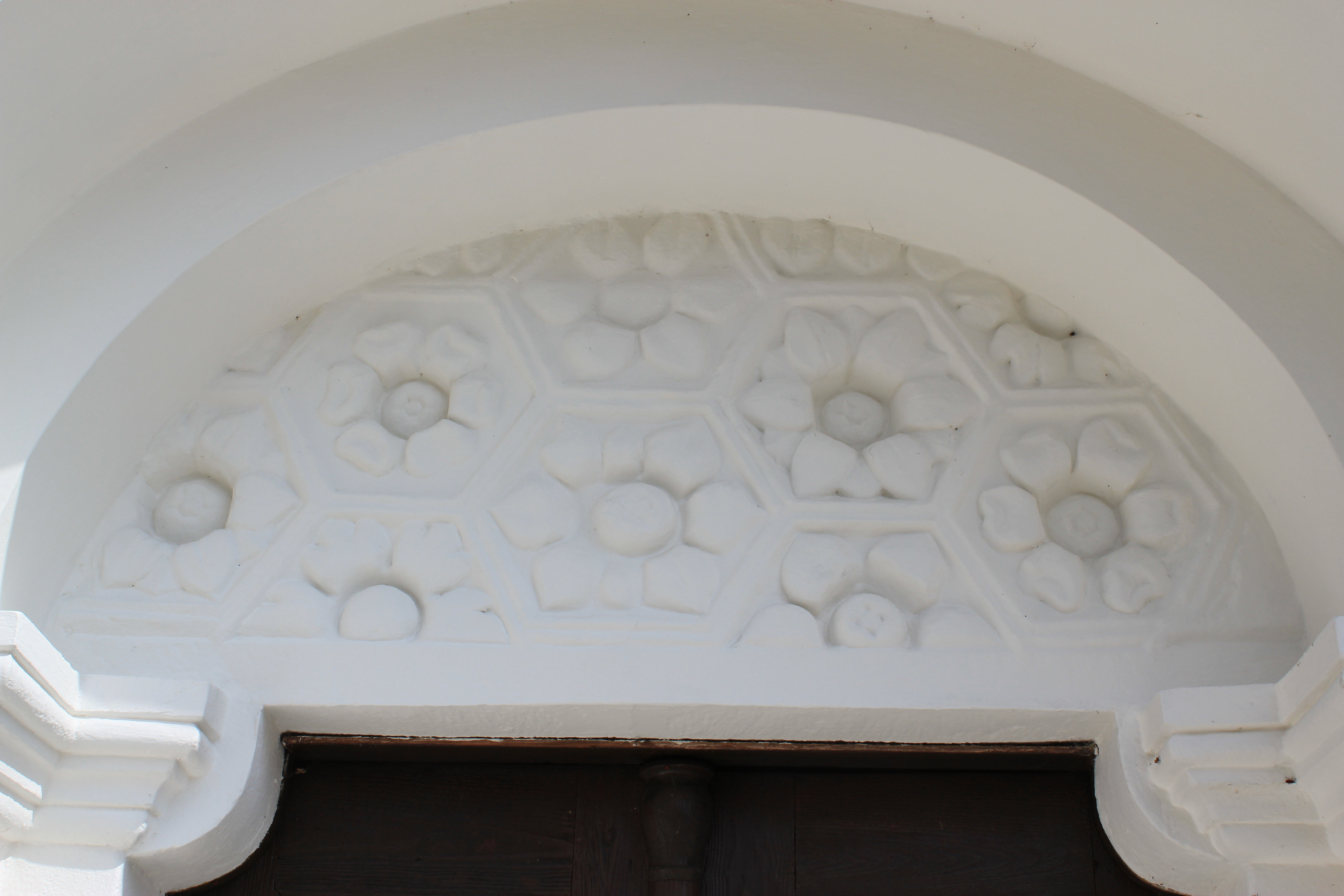 Parish-church St. Ruprecht in Völkermarkt - Tympanon